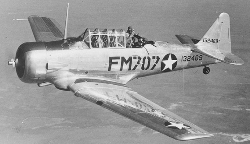 Buckingham Army Airfield - Florida North American AT-6C-NT Texan 41-32469